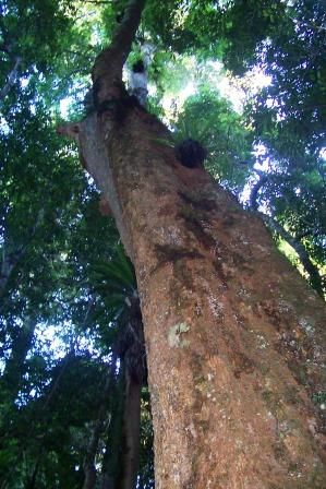 Rosewood, Comboyne NSW